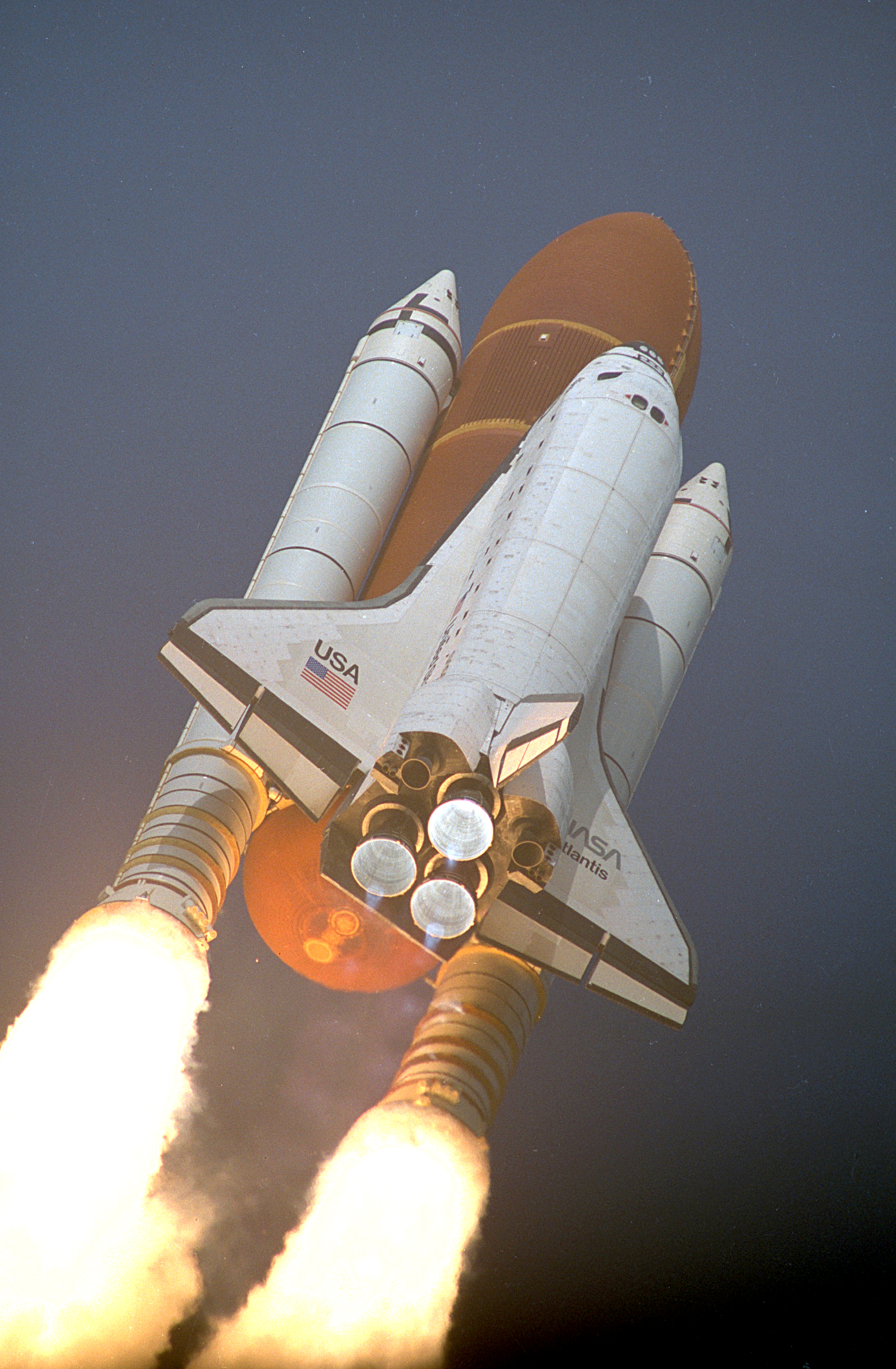 With its twin solid rocket boosters and three main engines churning at seven million pounds of thrust, the Space Shuttle Atlantis thunders skyward from Launch Pad 39A. Liftoff of Mission STS-45 occurred at 8:13:40 a.m. EST, March 24, 1992. On board for the 46th Shuttle flight are a crew of seven and the Atmospheric Laboratory for Applications and Science-1 (ATLAS-1). The launch is the second in 1992 for the Shuttle program and Atlantis' 11th flight.